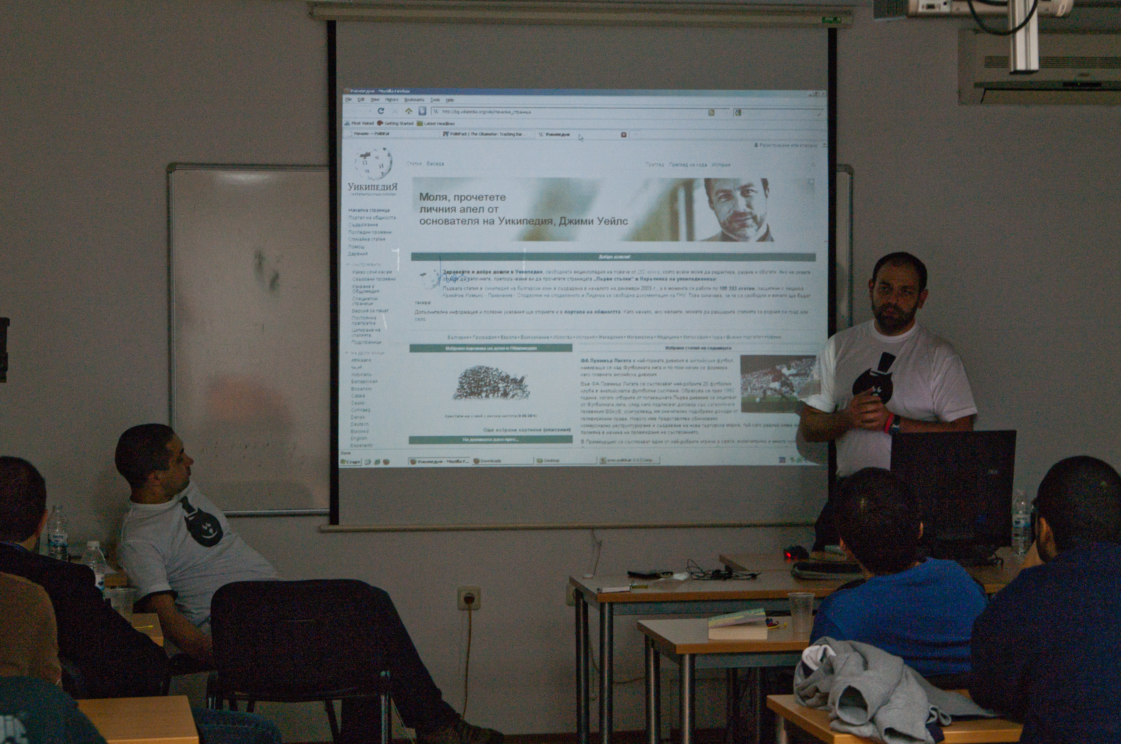 presentation at the New Bulgarian University in November 2010. Co-founder Konstantin Pavlov (right) explains why is based on Wikipedia technology, while the other co-founder, Assen Genov, watches.